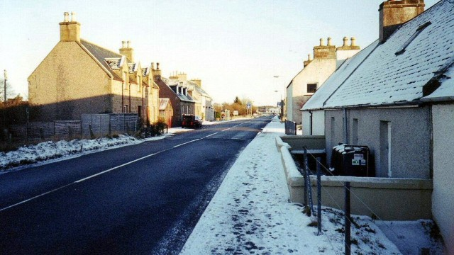 Barbaraville